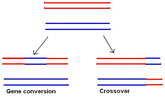 Difference between gene conversion and crossover. Blue is the two DNA strands of one chromosome and red is the two strands of another one.